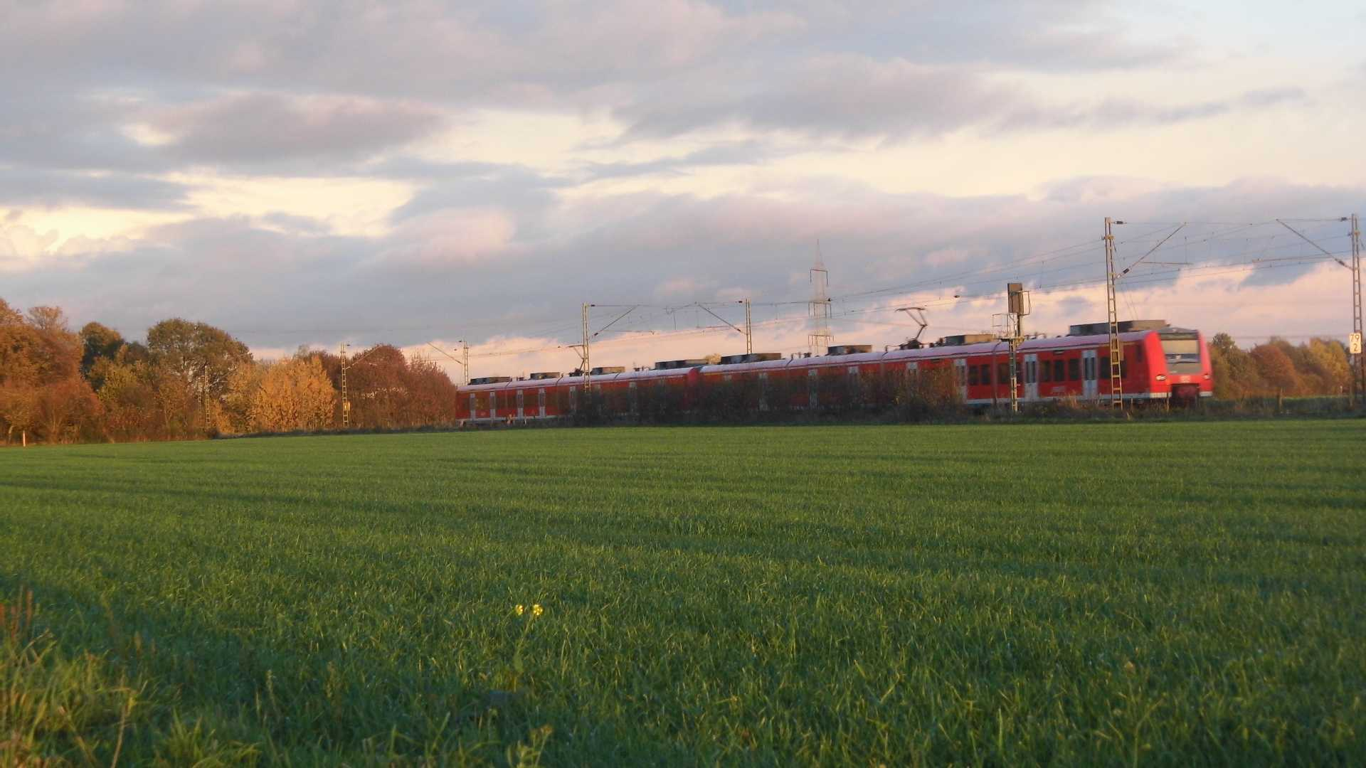 Local passenger train ("Regionalbahn") passing in Hochbend, Tönisvorst, Germany.